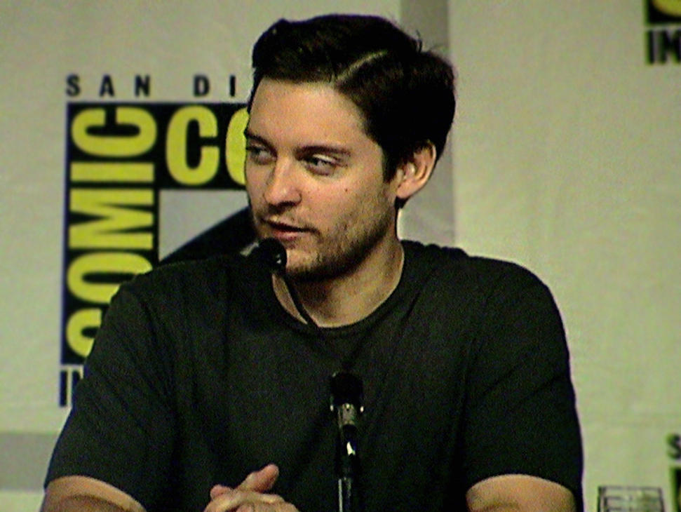 American actor Tobey Maguire at the 2006 Comic-Con International